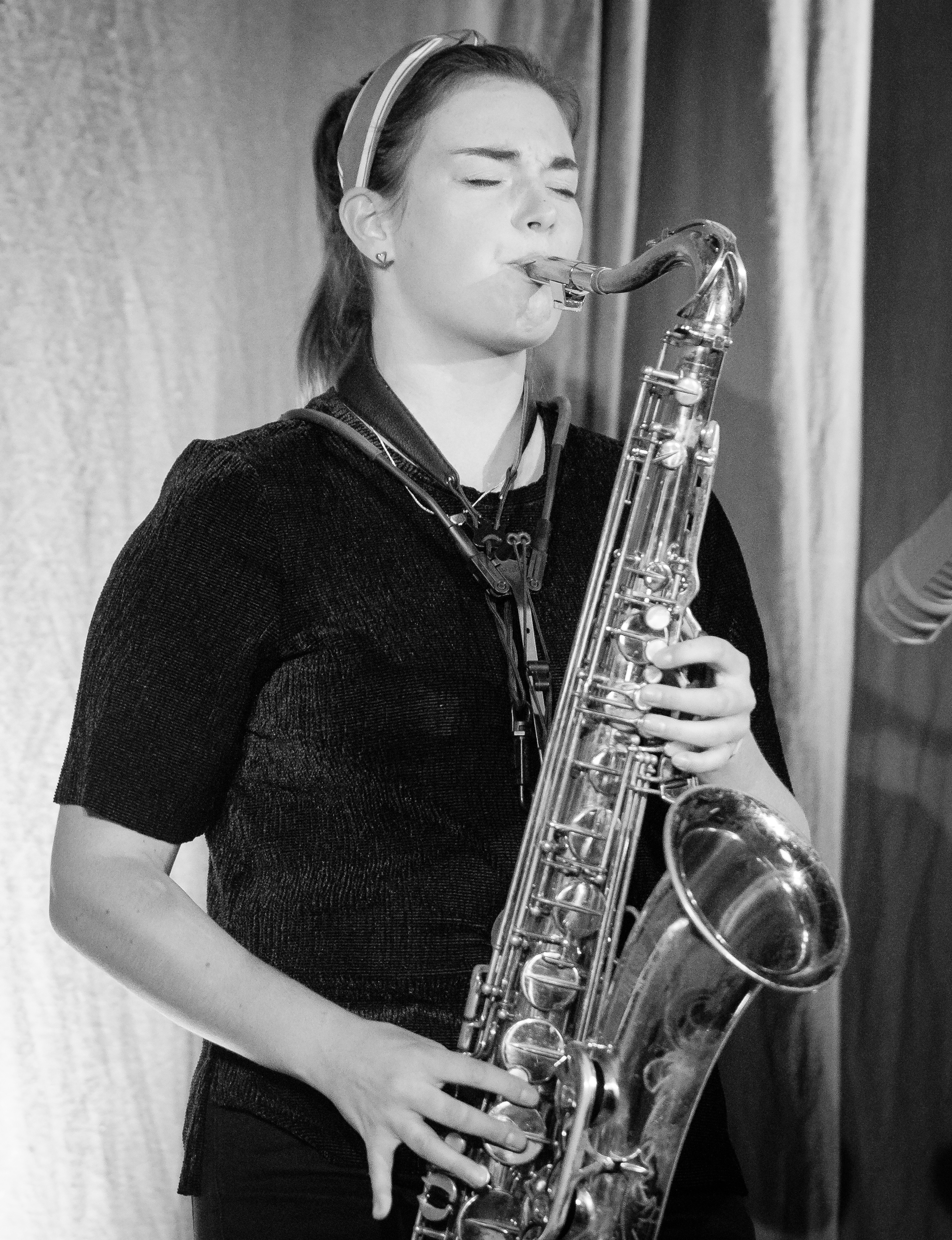 Elisabeth Lid Trøen with Ole Amund Gjersvik quartet at Løa Jølstraholmen. The concert was part of Jazz på Jølst and took place on 11. October 2018 in Jølster. Lineup: Elisabeth Lid Trøen (saxophone) Anders Olav Ese (guitar) Ole Amund Gjersvik (double bass) Frank Jakobsen (drums)